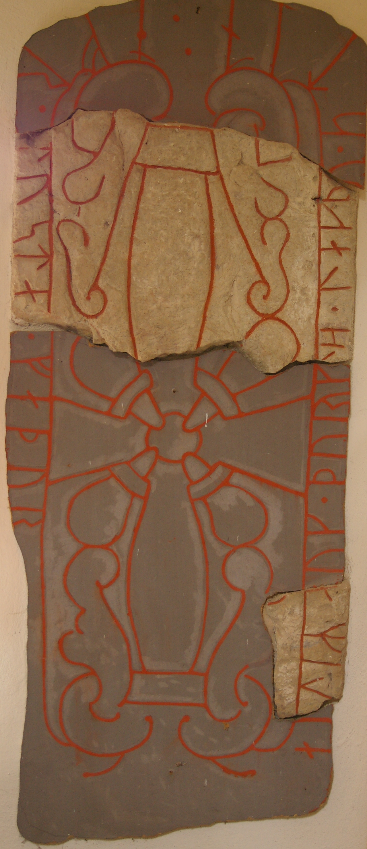 Gudhems kyrka (Swedish:Church of Gudhem) in Västergötland, Sweden. Built at the end of the 12th century (1160-1200). The runestone vg 87 is placed in the porch.